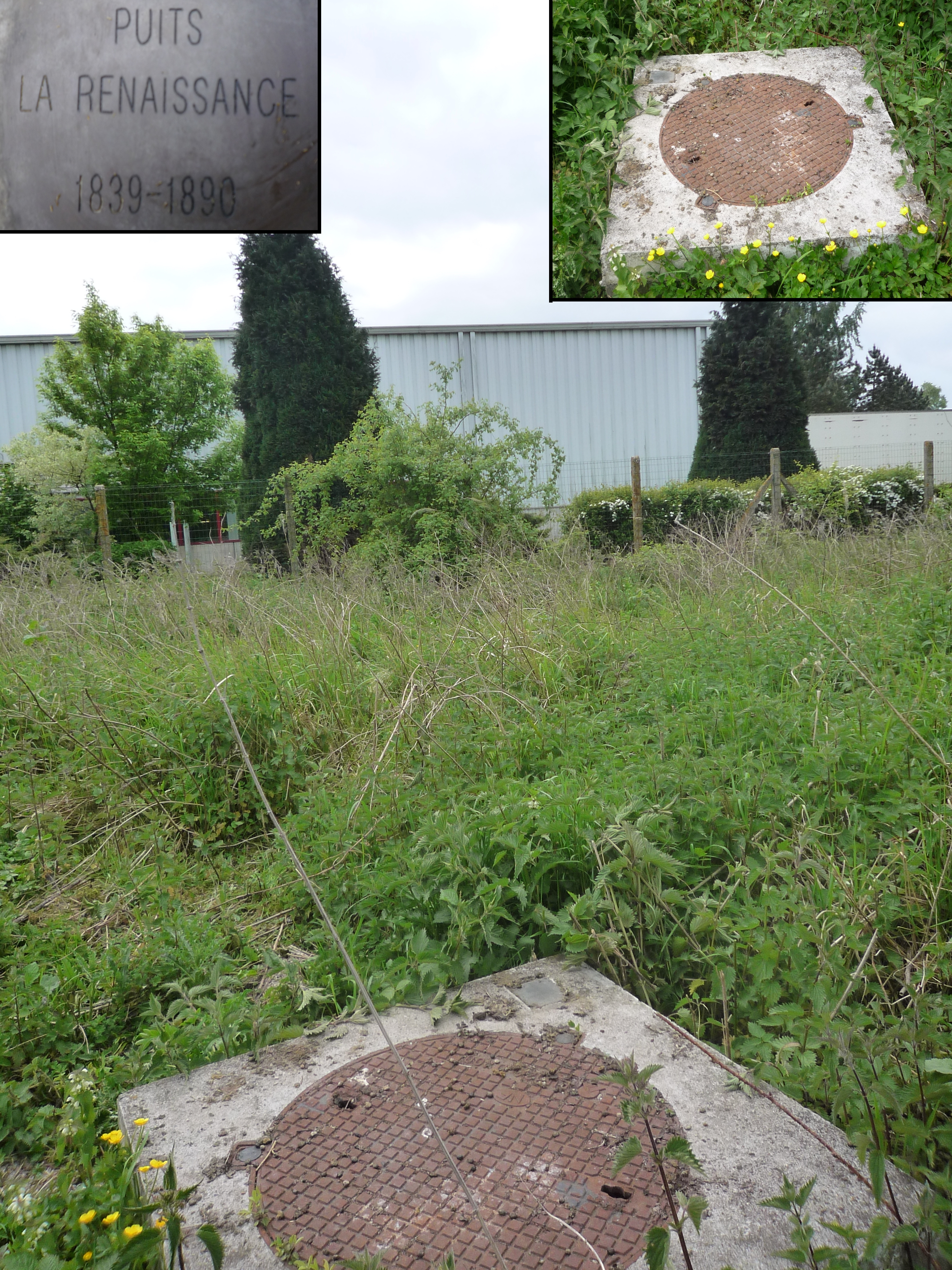 Pit of the Compagnie des mines d'Aniche, France.